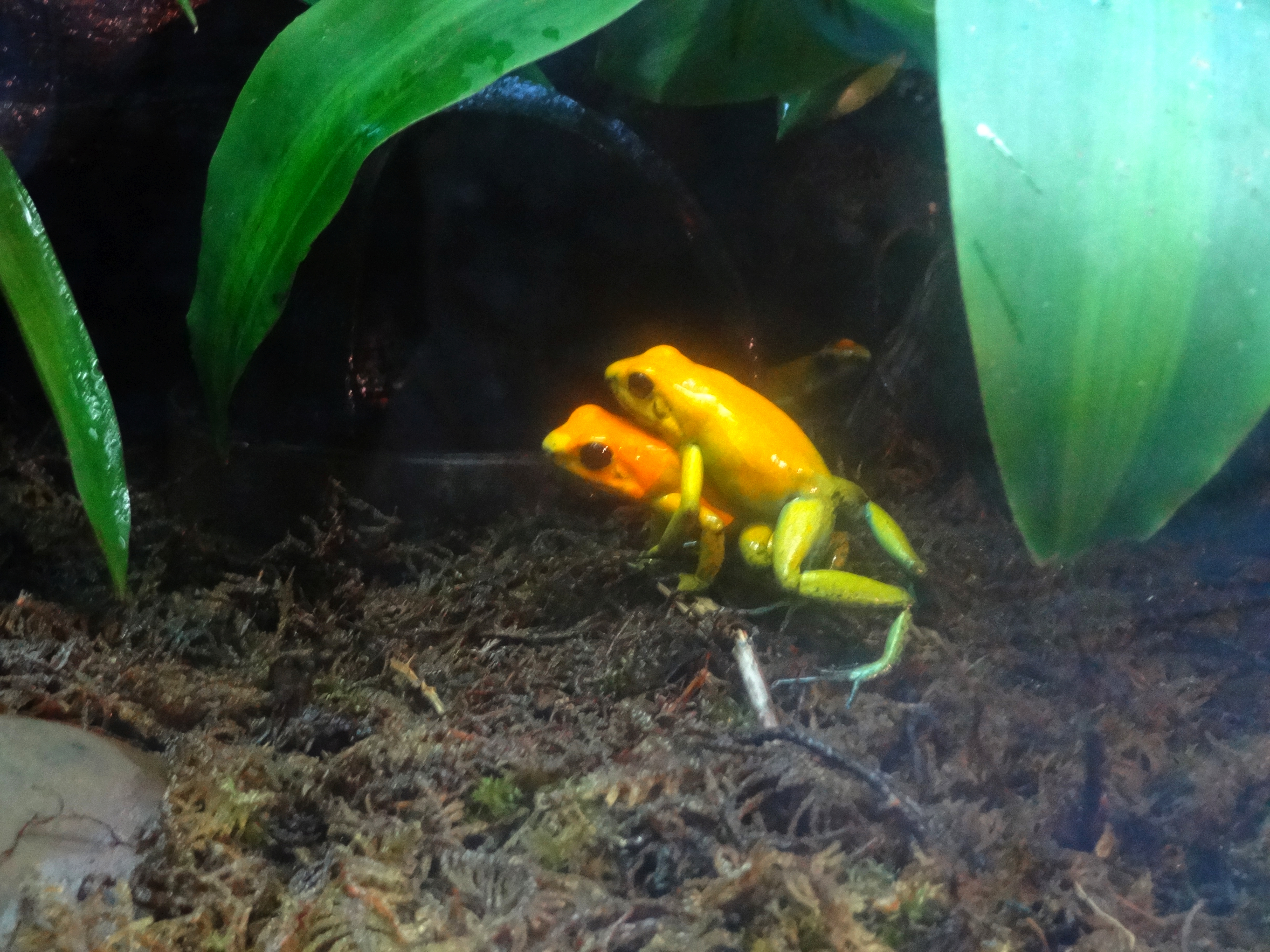 Phyllobates terribilis mating in captivity, Parque Explora, Medellín, Colombia